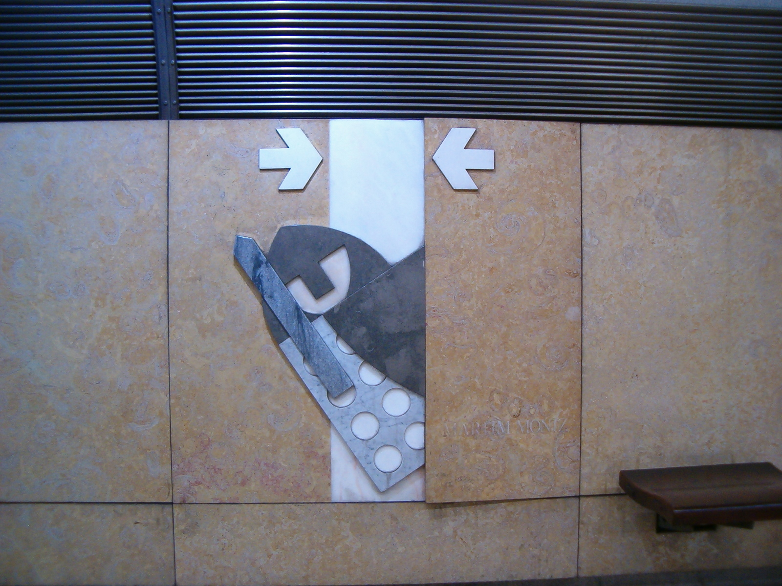 Metro station Martim Moniz (Lisboa)